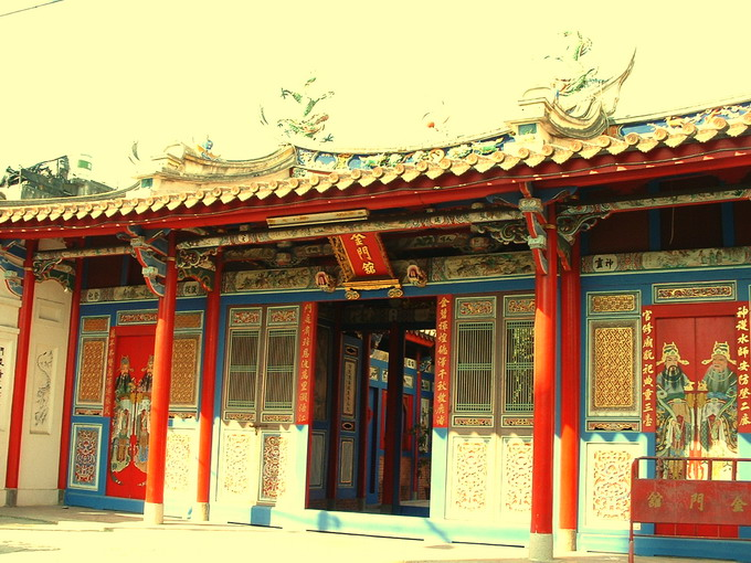 Photo shot by Lukacs at Kimmen Court in Lukang city, Taiwan.